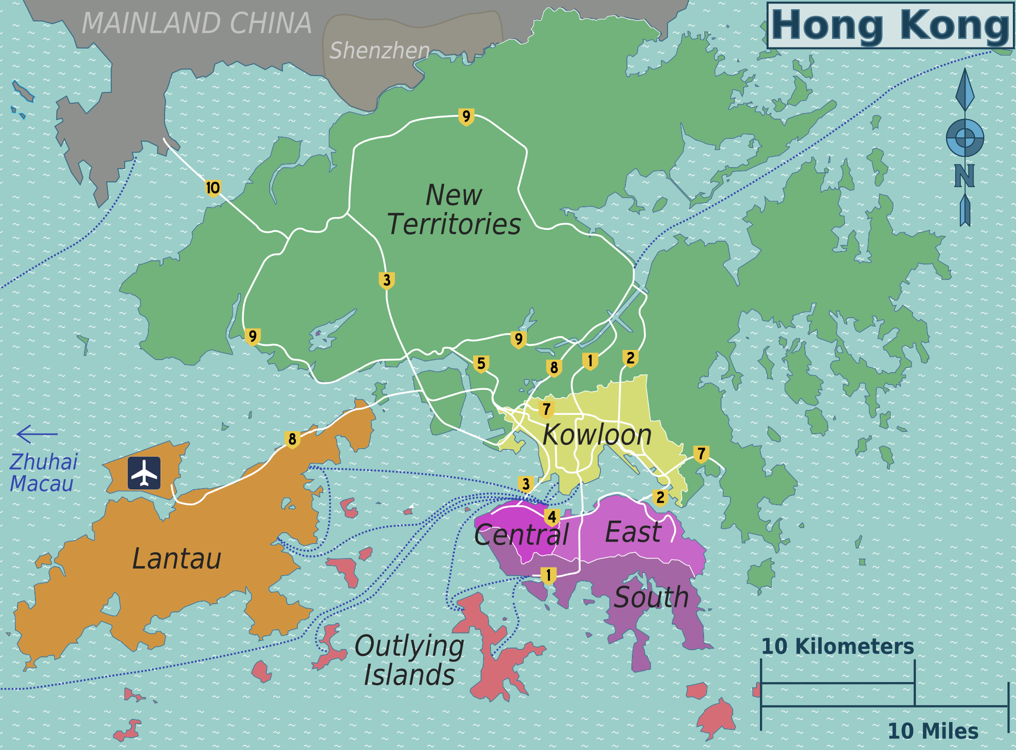 Hong Kong districts map for use on Wikivoyage, English version